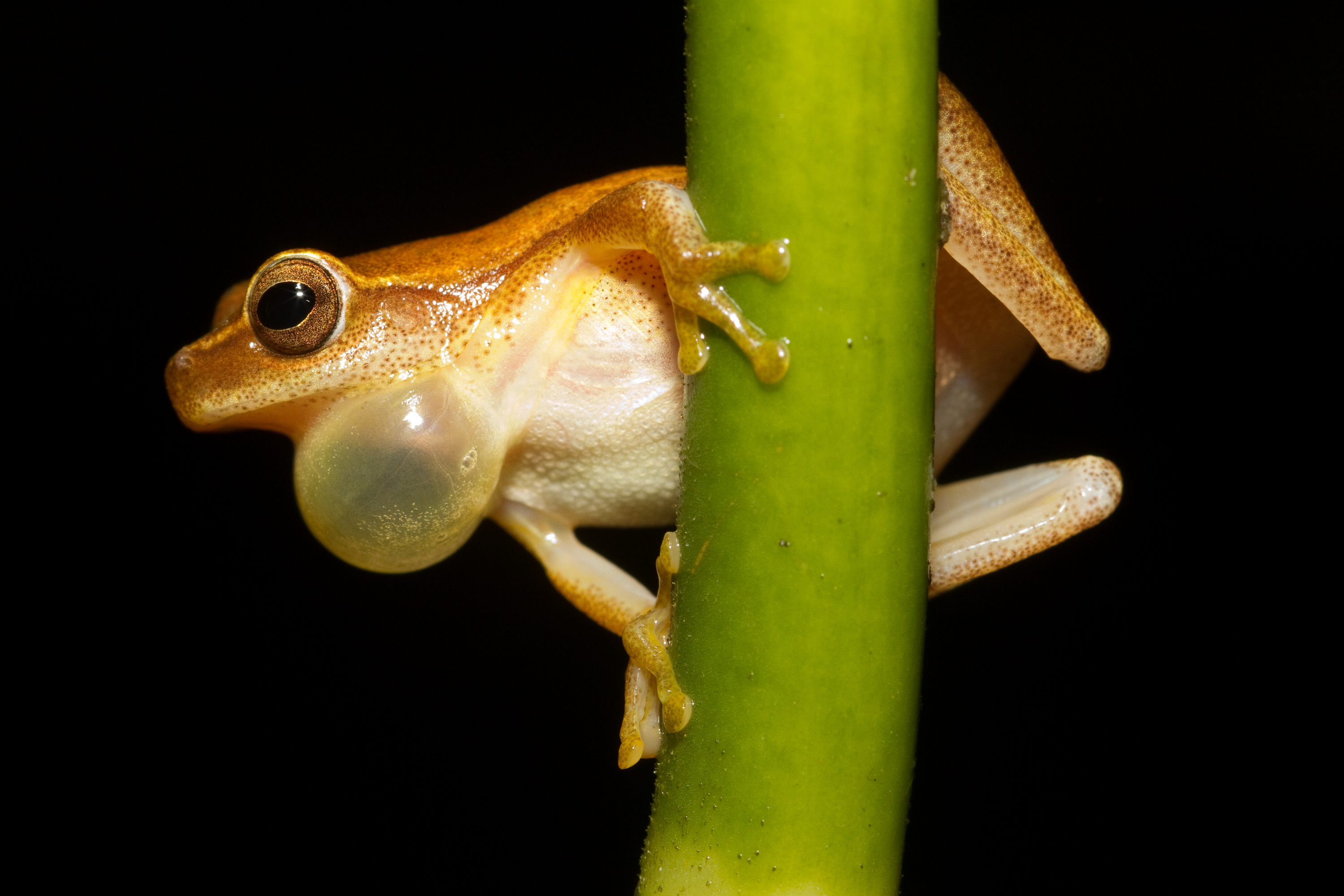 Calling male. Photograph taken in the wild at night.